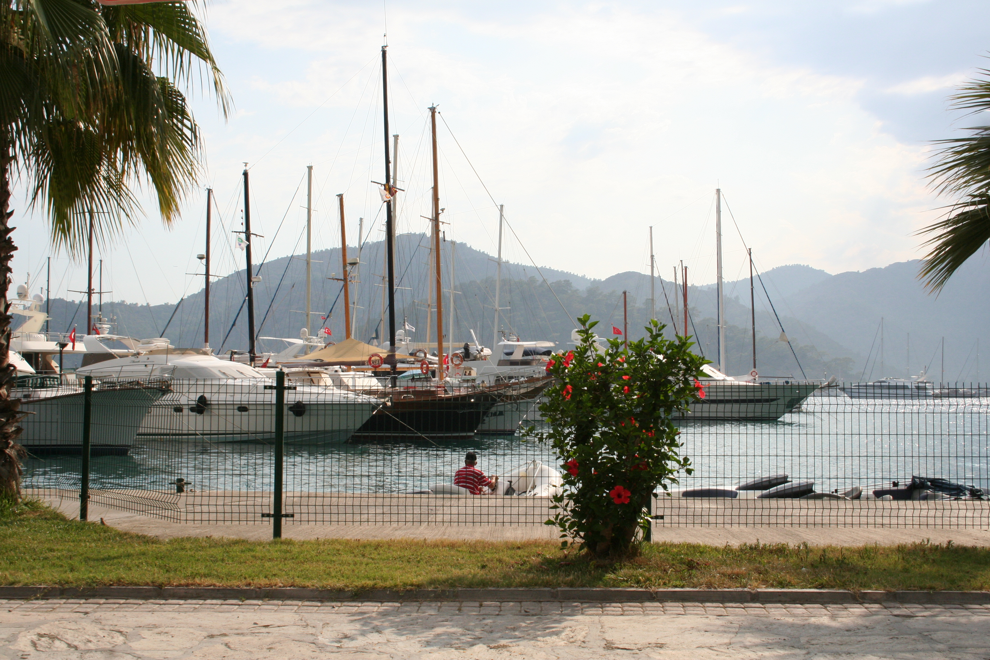 Port Göcek, Yacht marina named "Port Göcek" in Göcek, SW of Turkey Location: Gocek.